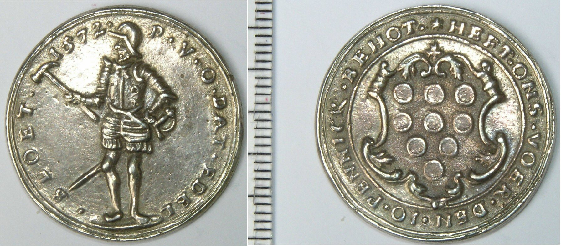 Uploading a better picture of the medal in my collection